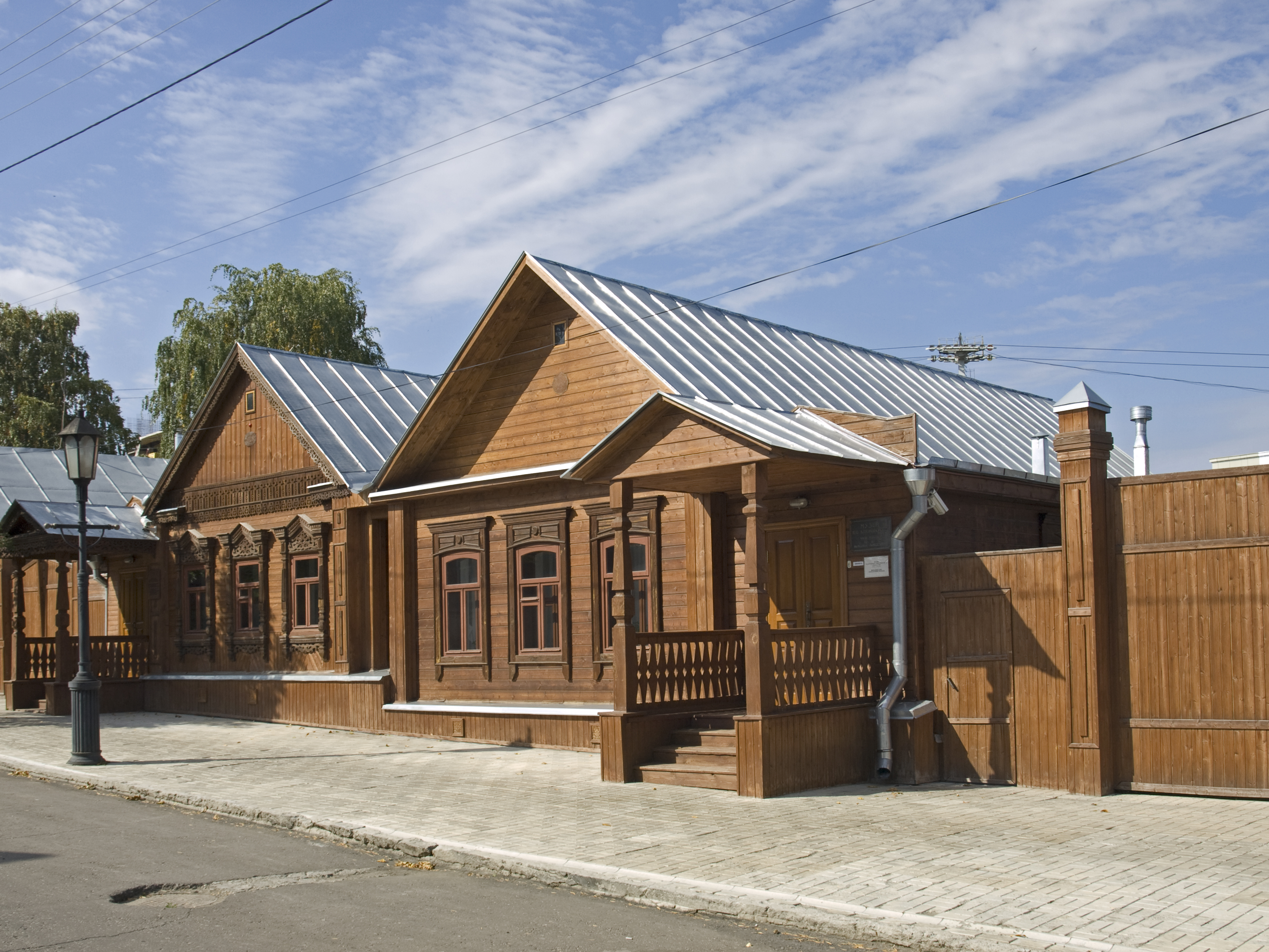 Vasily Klyuchevsky Museum, Klyuchevskogo Street 66-68, Penza